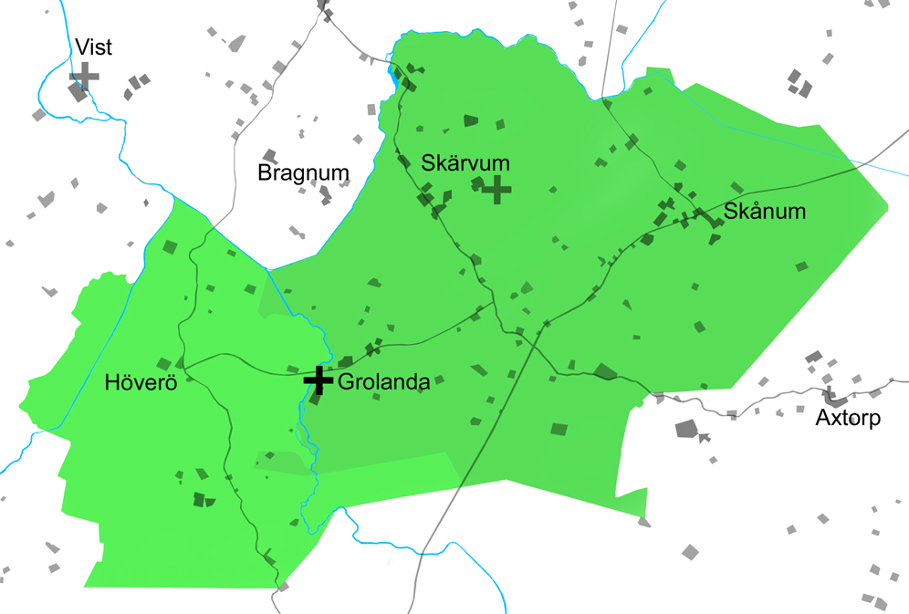 Map over Grolanda parish in Vilske hundred, municipality of Falköping, Västergötland, Sweden. Scale 1:40,000. The area of Grolanda parish is marked green. The darker eastern part belonged earlier to Frökind hundred. The lighter western part has always belonged to Vilske hundred. The river Lidan and its three arms are marked blue. The Grolanda church is marked with a black cross. The church ruins in Skärvum and Vist is marked with grey crosses. Within the parish Grolanda, Skärvum, Skånum, and Höverö is named.